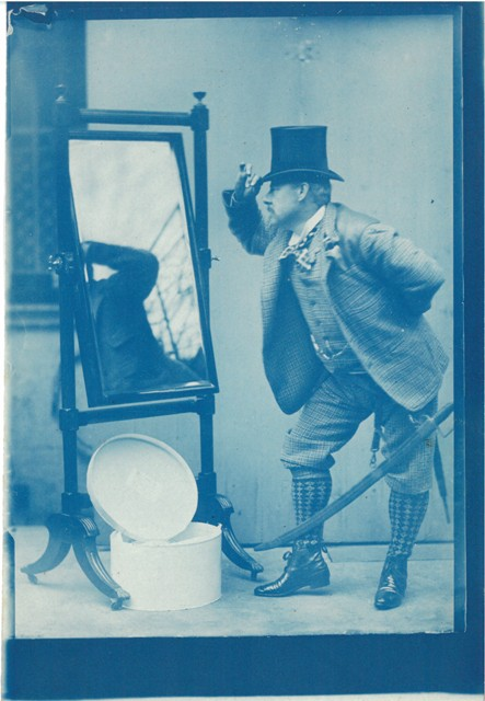 Self portrait of Linley Sambourne modelling for a Punch cartoon 'Quite English, You Know!'published Vol 108, Jan 19, 1895, pg 26.